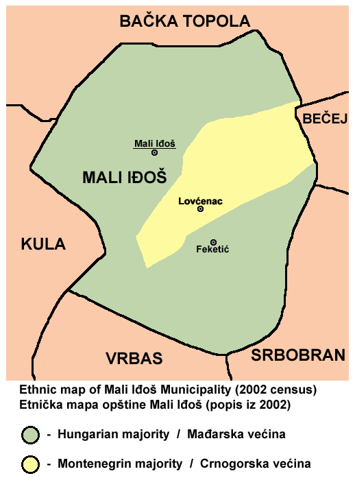 Ethnic map of Mali Iđoš municipality, 2002 census.